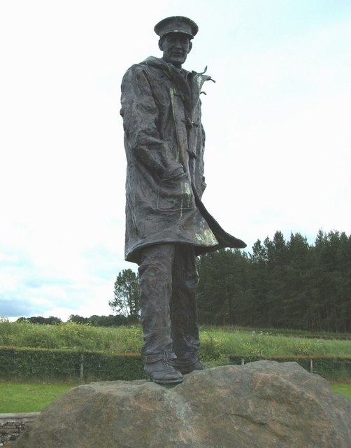 David Stirling up close. "Face on" view of the famous soldier.